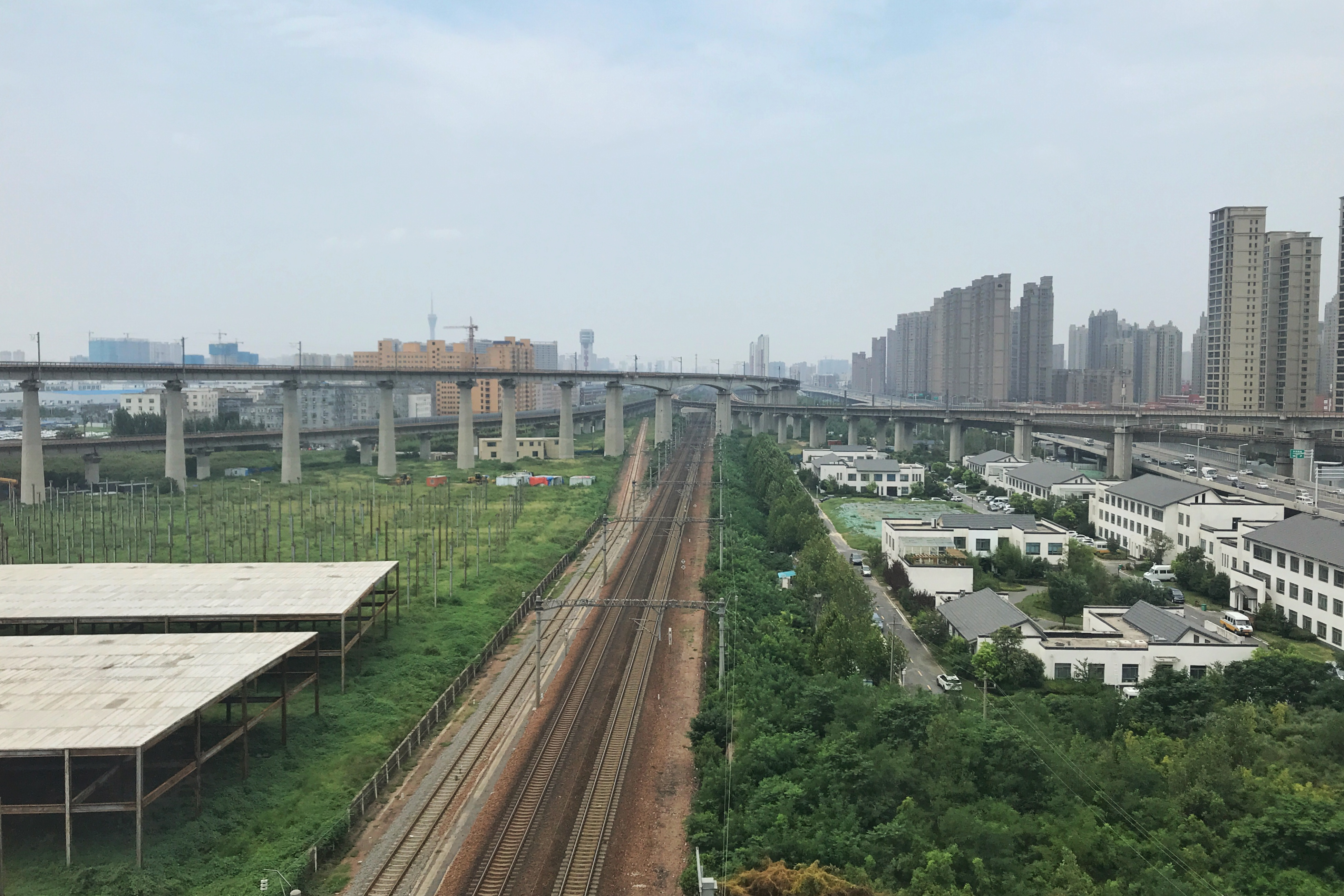 Longhai railway in east Zhengzhou